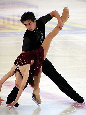 An Ni and Wu Yiming during their free skate at the 2004 Junior Grand Prix event in Germany